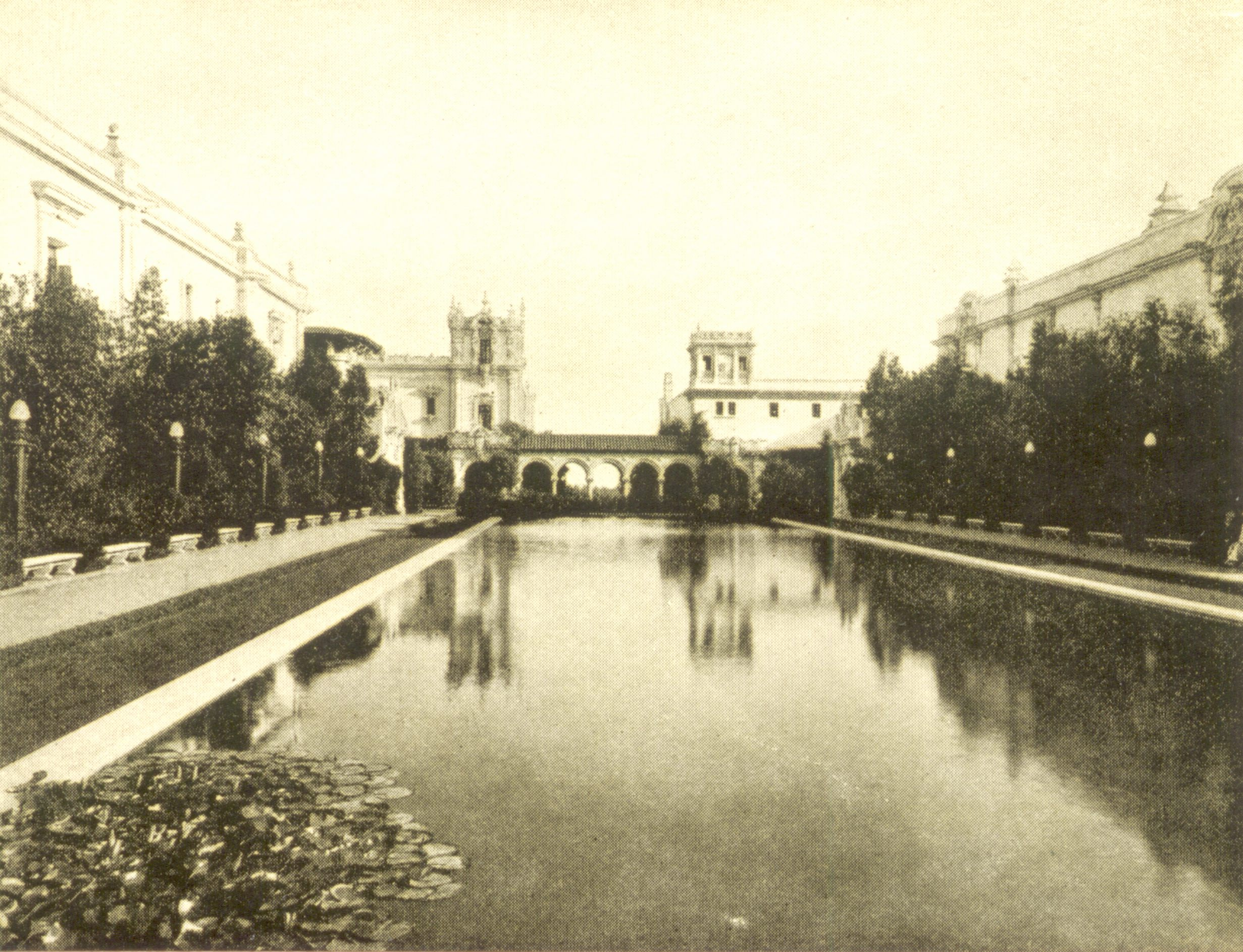 La Laguna de Las Flores, The Arcade — at the Panama-California Exposition, Balboa Park, San Diego, California. Possibly the irresistible charm of the decorative use of water is not felt as strongly by the visitor to Southern California as it is by the resident, but no one can see the orderly, placid reflecting pool in front of the Botanical Building without realizing how satisfying it is and how necessary it is to the decorative success of the Fair. Long, rectangular in form, its edges bordered with the intensely blue lobelia, its lilies graded in richness as they approach the Botanical Building, it forms a splendid foreground for the views from all sides. The reflections of the arcade at the south and of the Botanical Building at the north are fine, but that of the apsse of the pseudo-chapel of the Foreign and Domestic Industries Building, forms possibly the most picturesque detail for the Exposition.